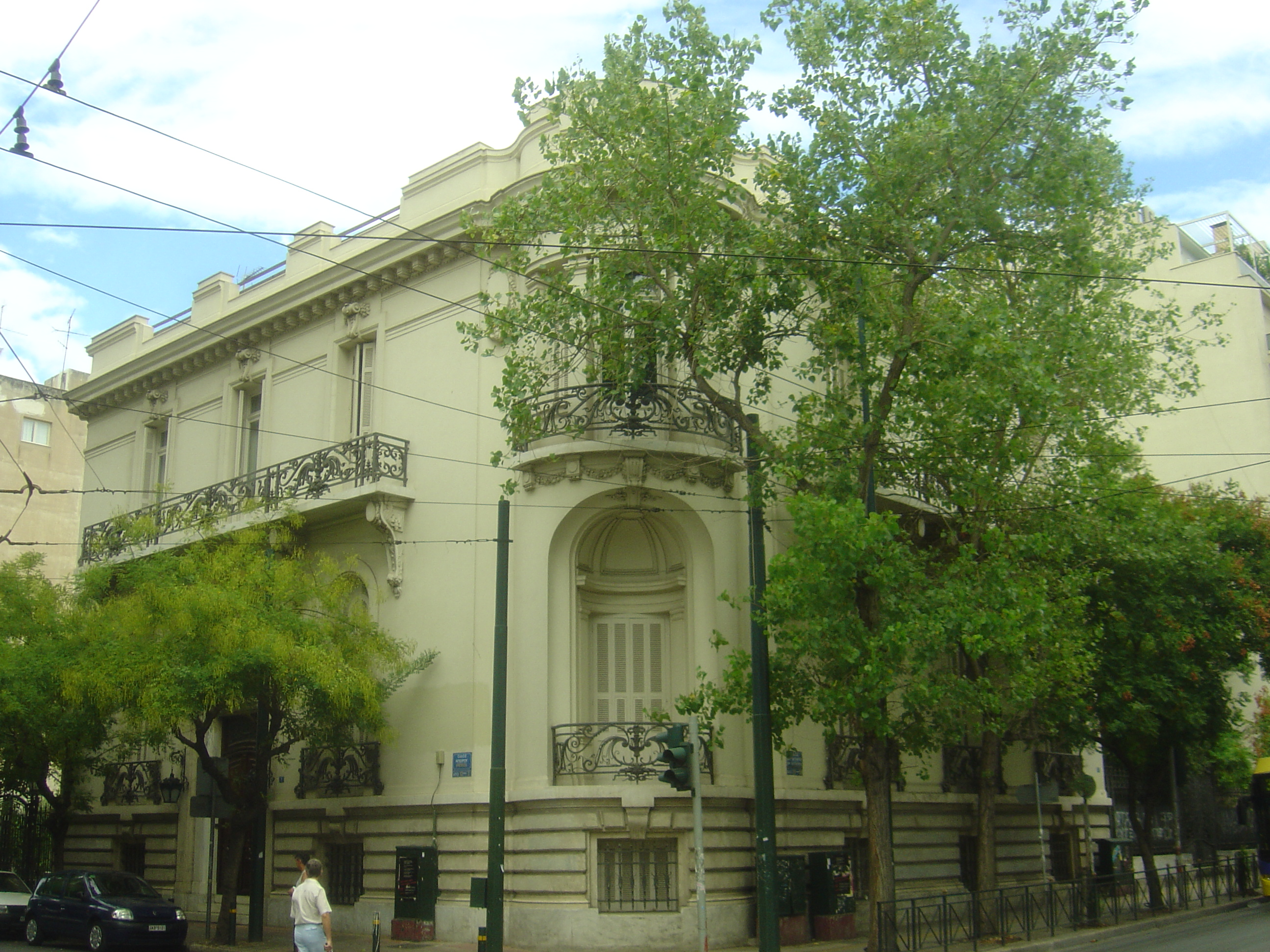 Livieratos Mansion, Athens